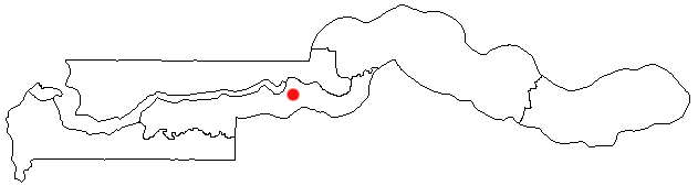 Soma, The Gambia Location Map